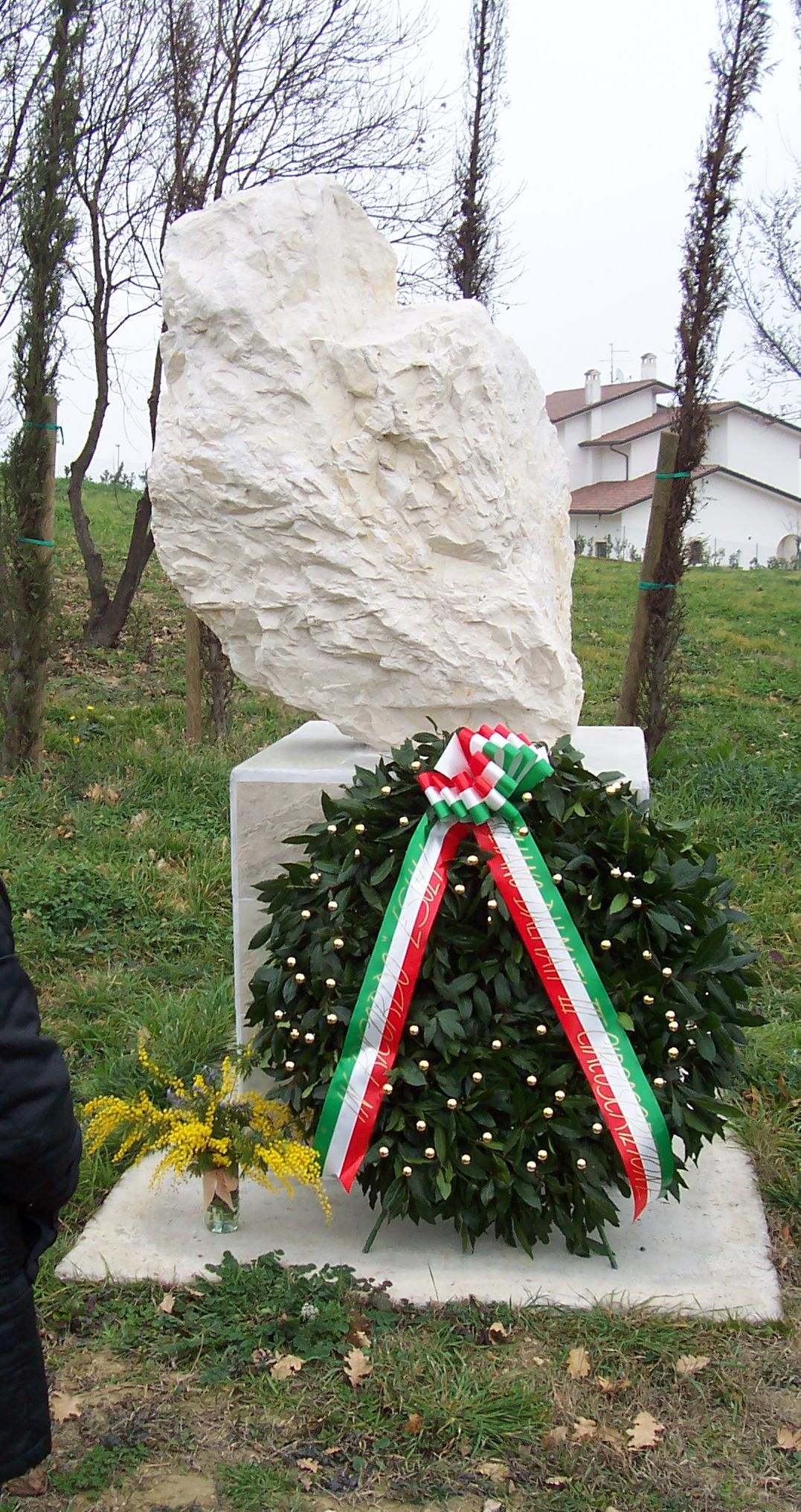 Parco Esuli